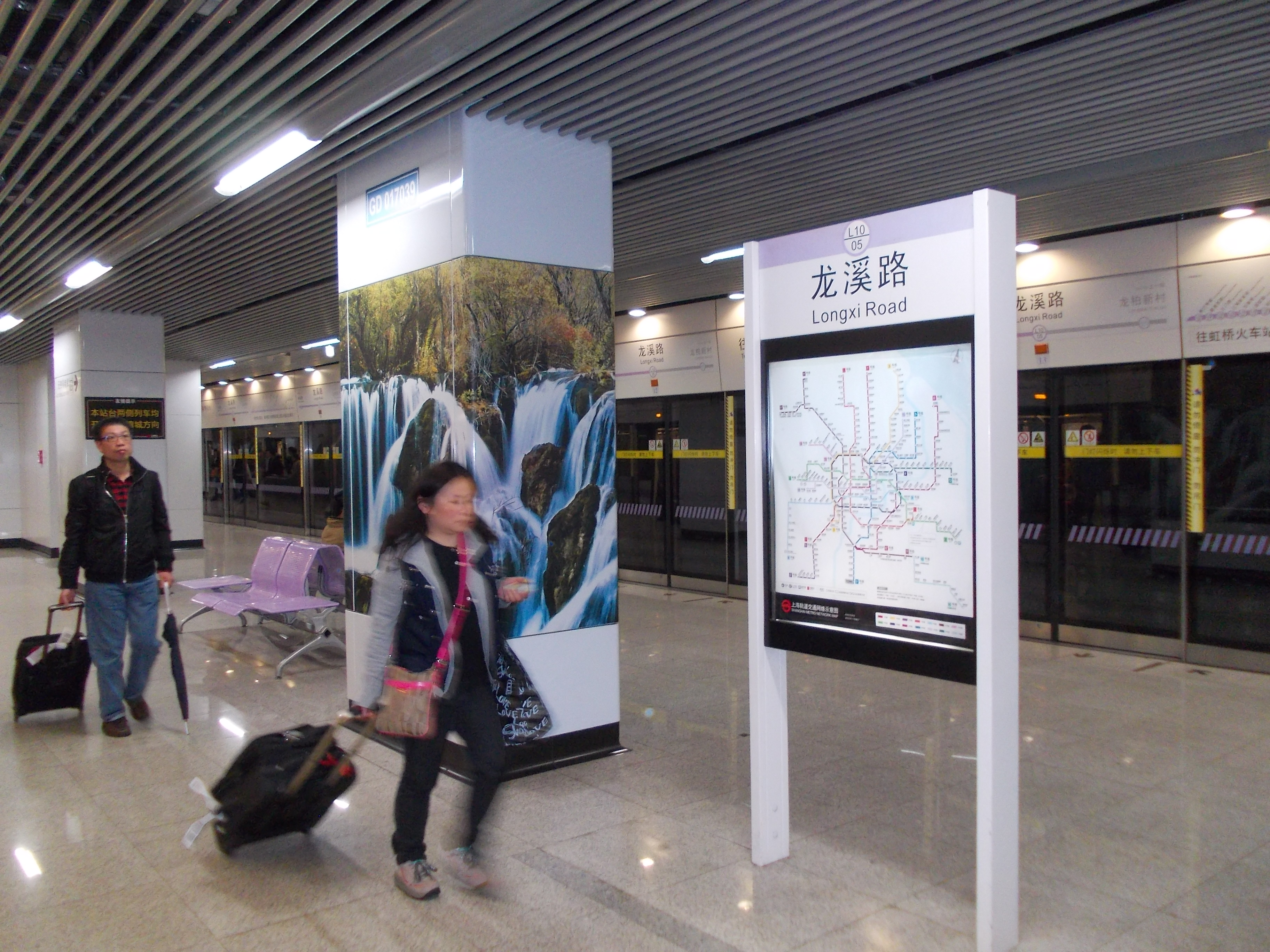 Shanghai Metro - Line 10 - Longxi Road